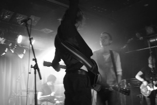 Wild Water live at John Dee